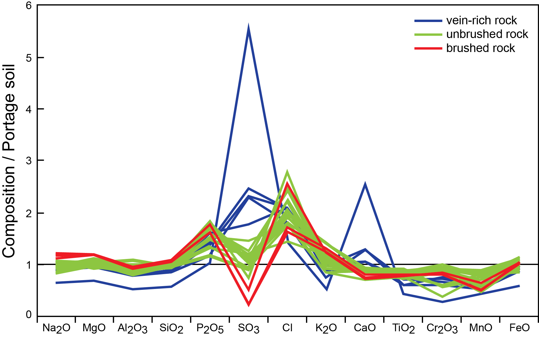 PIA16791: Elemental Compositions of 'Yellowknife Bay' Rocks Target Name: Mars Mission: Mars Science Laboratory (MSL) Spacecraft: Curiosity Instrument: Alpha Particle X-ray Spectrometer (MSL) Product Size: 1883 x 1179 pixels (width x height) Produced By: JPL Full-Res TIFF: PIA16791.tif (6.663 MB) Full-Res JPEG: PIA16791.jpg (161.1 kB) Click on the image above to download a moderately sized image in JPEG format (possibly reduced in size from original) Original Caption Released with Image: Researchers have used the Alpha Particle X-ray Spectrometer (APXS) instrument on the robotic arm of NASA's Mars rover Curiosity to determine elemental compositions of rock surfaces at several targets in the "Yellowknife Bay" area of Gale Crater. This graphic presents results from APXS, with the comparisons simplified across diverse elements by dividing the amount of each element measured in the rocks by the amount of the same element in a local soil, called "Portage." Vein-rich rocks contain elevated abundances of sulfur and calcium. Other rock targets are remarkably uniform in composition and similar to the Portage soil, excepting high chlorine. Brushing by Curiosity's Dust Removal Tool reveals lower abundances of sulfur in the rock than in the dust coating that the brushing removed. NASA's Jet Propulsion Laboratory, Pasadena, Calif., manages the Mars Science Laboratory Project and the mission's Curiosity rover for NASA's Science Mission Directorate in Washington. The rover was designed and assembled at JPL, a division of the California Institute of Technology in Pasadena. More information about Curiosity is online at and